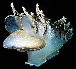 Photo of Tethys fimbria. Locality: 30 m., Archi, Reggio Calabria, Italia, Mar Tirreno.